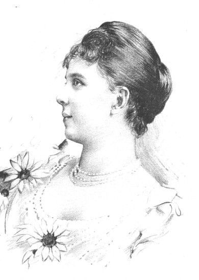 Portrait of Irene von Chavanne (1868-1938), Austrian opera singer. Cropped from a group portrait.